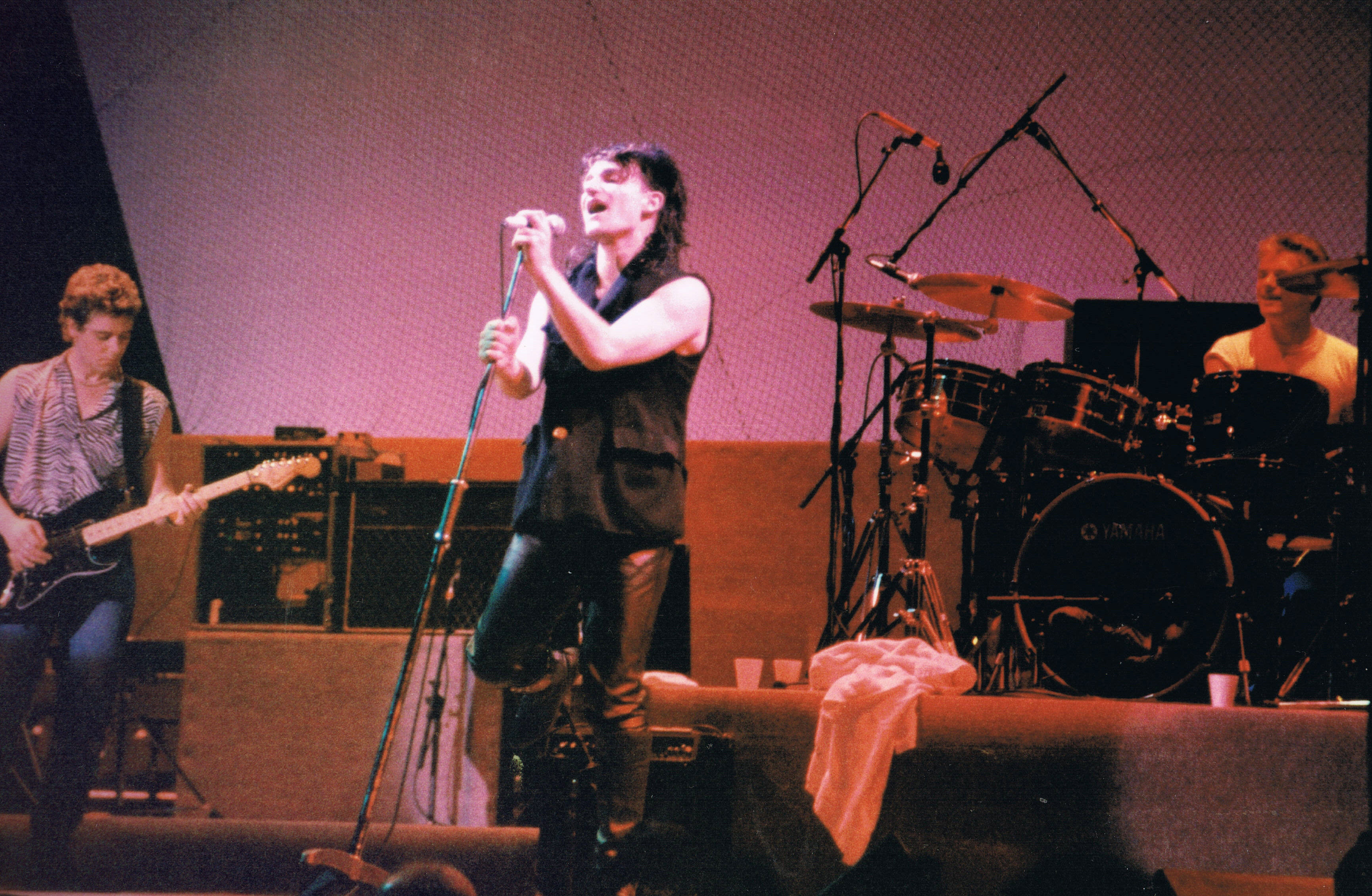 U2 performing in Sydney Entertainment Centre in Sydney, Australia on September 9, 1984 on their Unforgettable Fire Tour